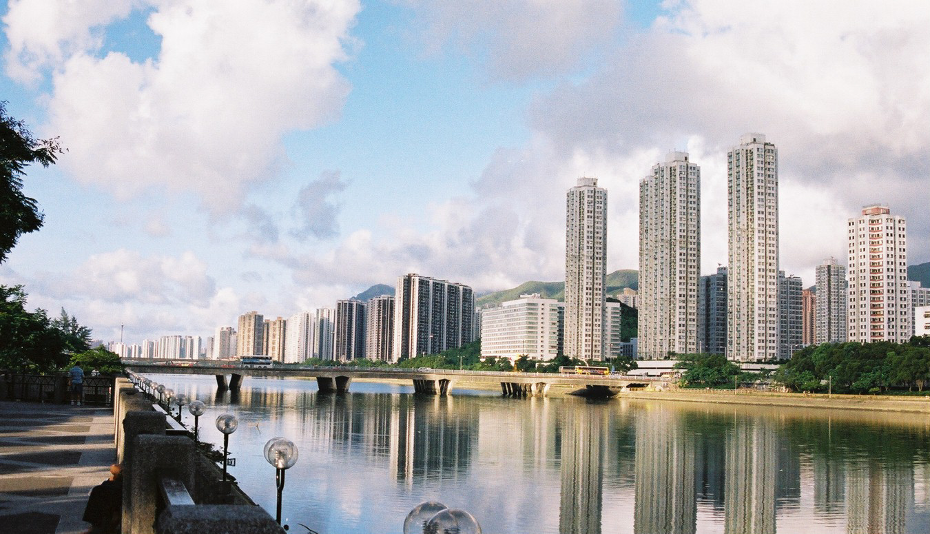 A view of Sha Tin along Shing Mun River (Taken by Tsui Sing Yan Eric)